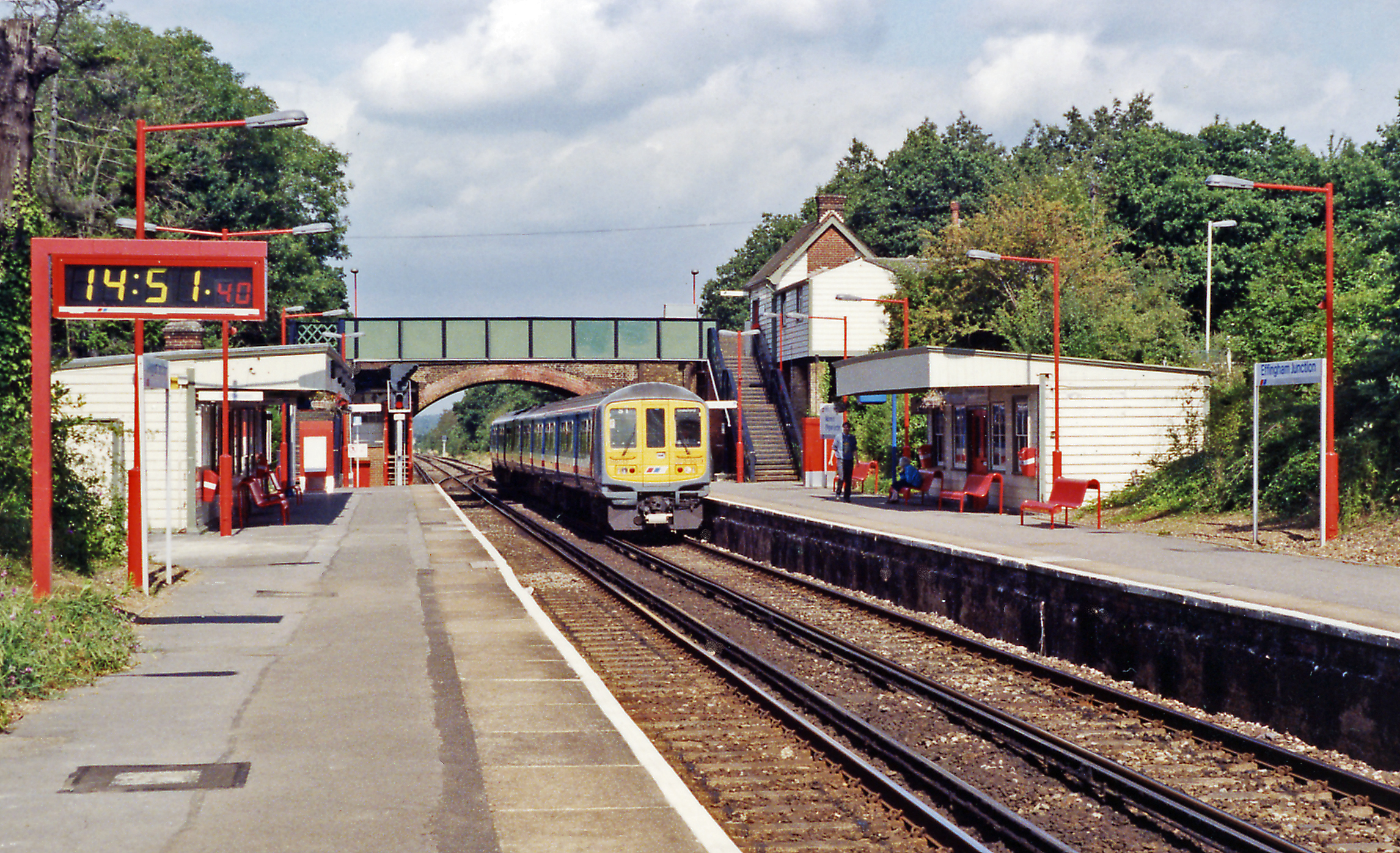 Effingham Junction station, 1991. View NE, towards London:- to left to Waterloo via Cobham, to right to Waterloo or Victoria via Leatherhead, Epsom and Sutton. The junction is just out of sight. The train arriving is a Class 319 EMU on the 13.00 Luton - Guildford Thames-Link train, which has come via Sutton and Epsom.